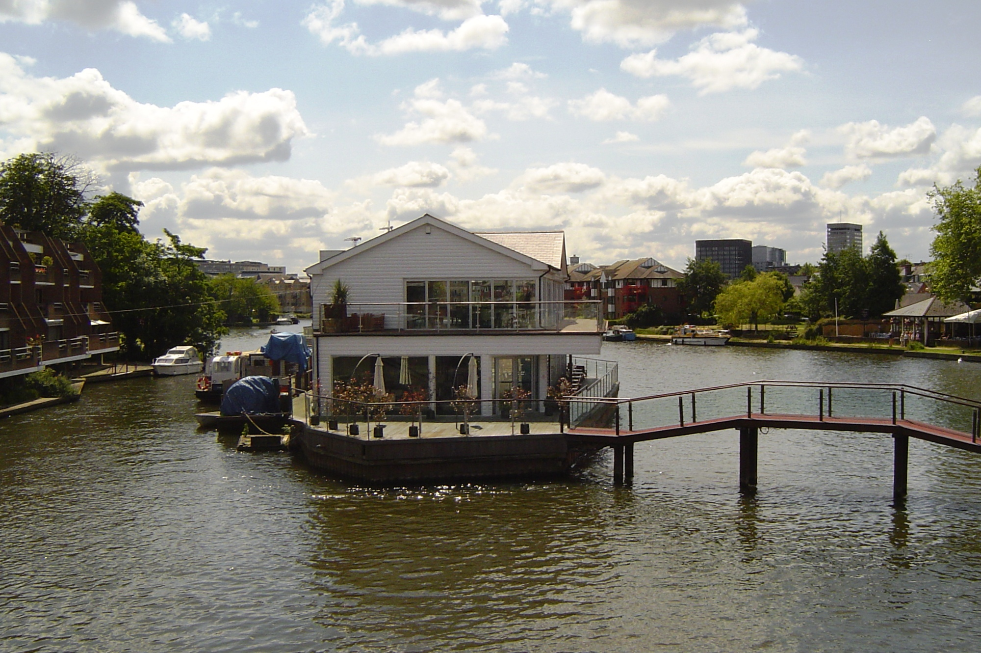 Pipers Island, in the River Thames in the English town of Reading, seen from Caversham Bridge. For more information, see the Wikipedia article Pipers Island.